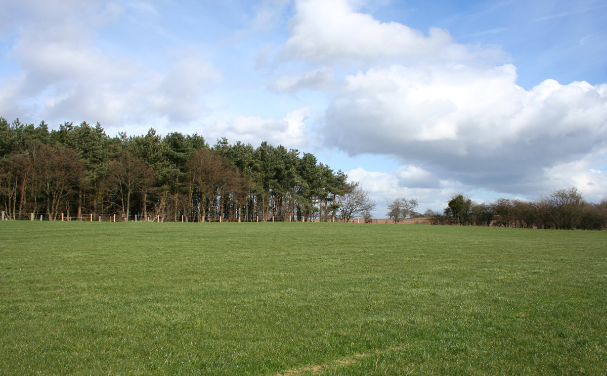 Pasture by Peckforton Moss, near Peckforton, Cheshire